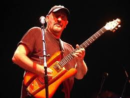 Dave Mason In 2007 Playing at the Canyon Club in Agoura with a signature RKS Guitar.